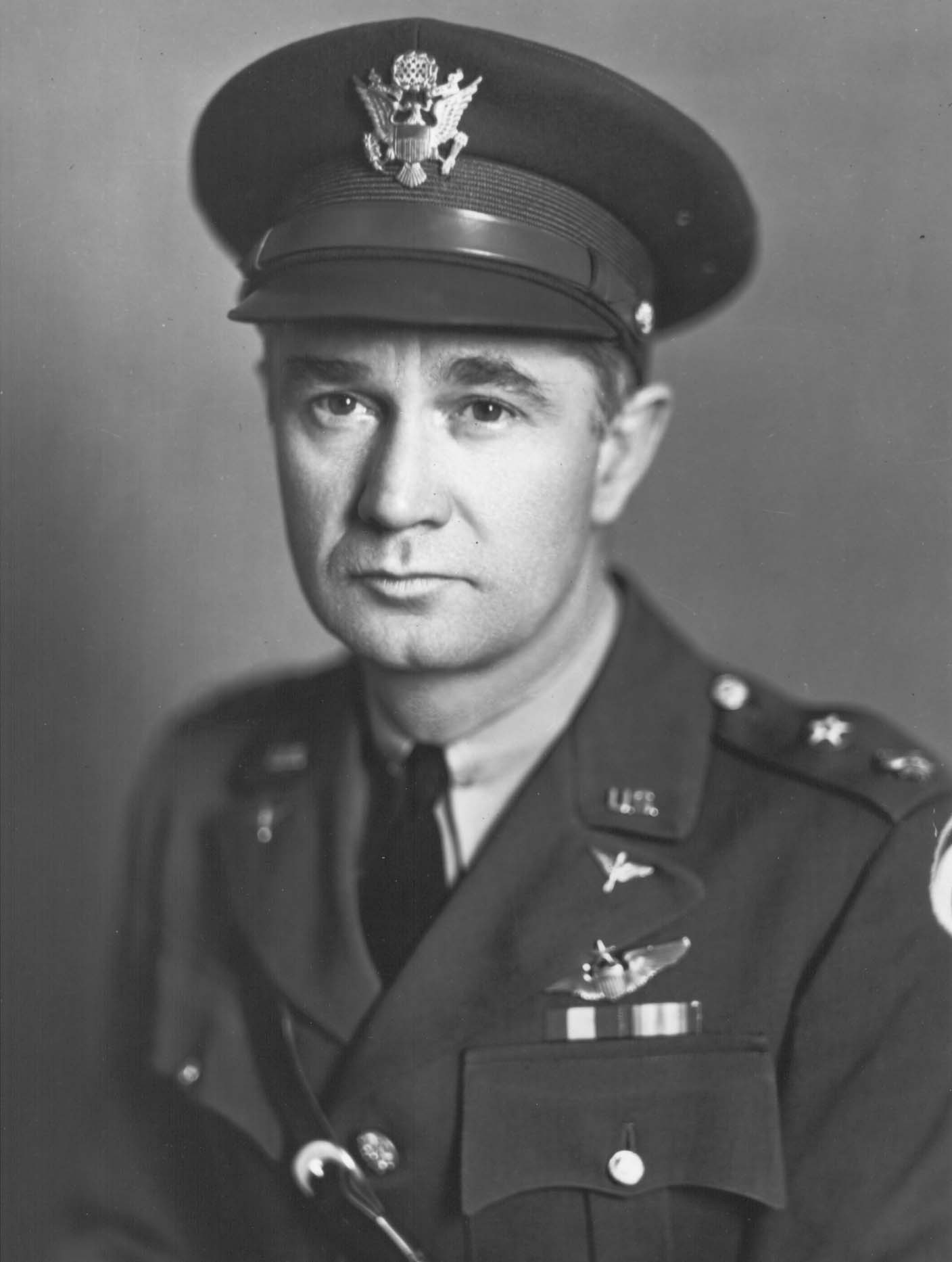 Colonel Demas T. Craw, United States Army Air Corps, World War II Medal of Honor recipient